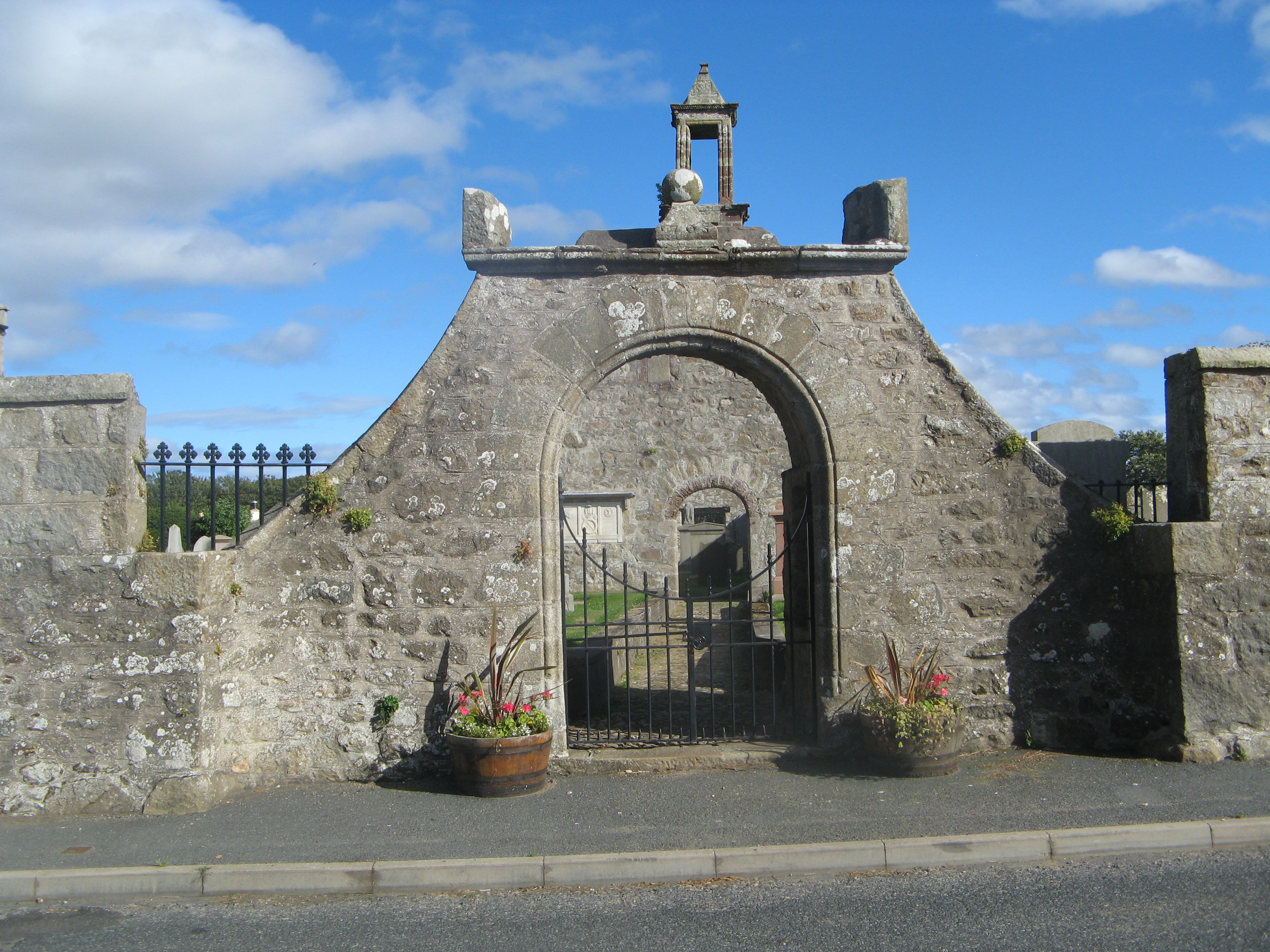 Churchyard Gateway, Longside Parish Church, category A listed